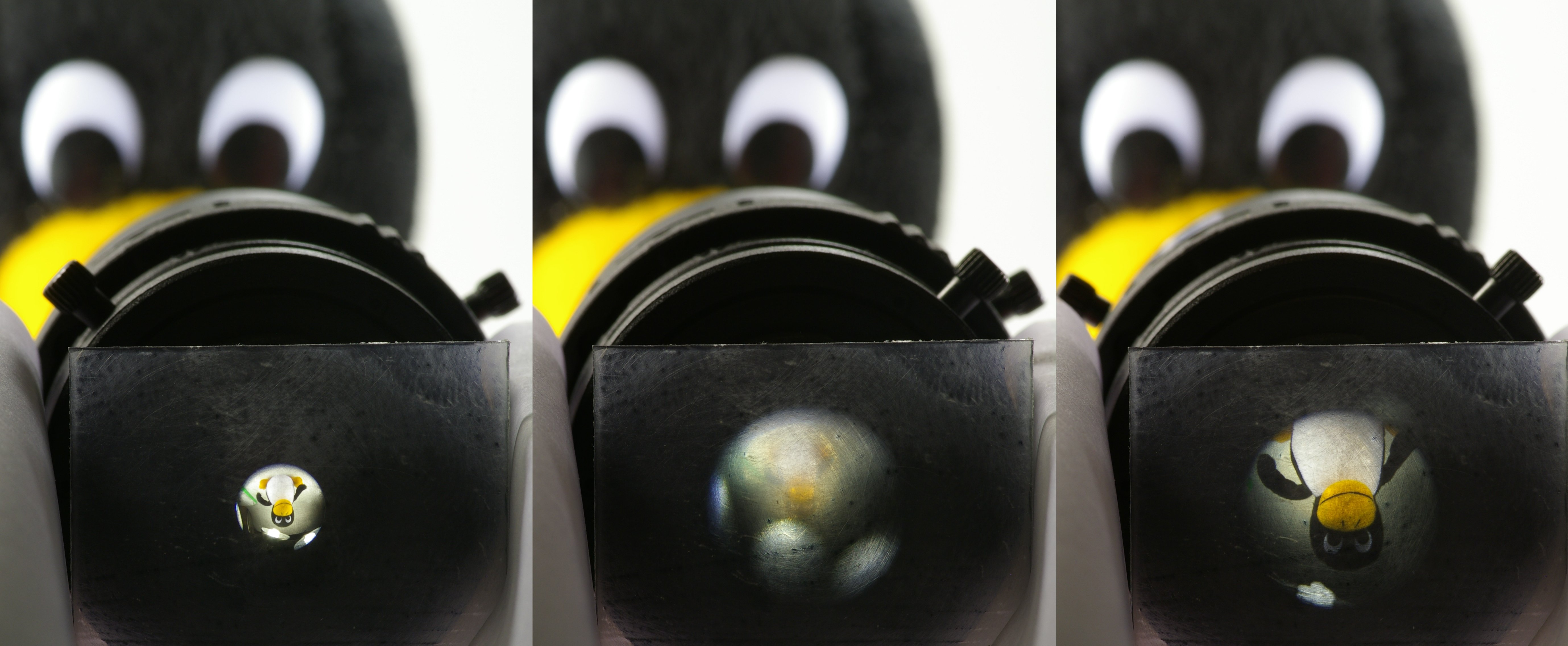 A demonstration of a varifocal lens. The left image is at 2.8mm, in focus. The middle image is at 12mm with the focus left alone from 2.8mm. The right image is at 12mm refocused. The close knob is focal length and the far knob is focus. The lens is a Tamron 2.8-12mm f/1.4 CCTV lens in the CS-Mount for 1/3" sensors.